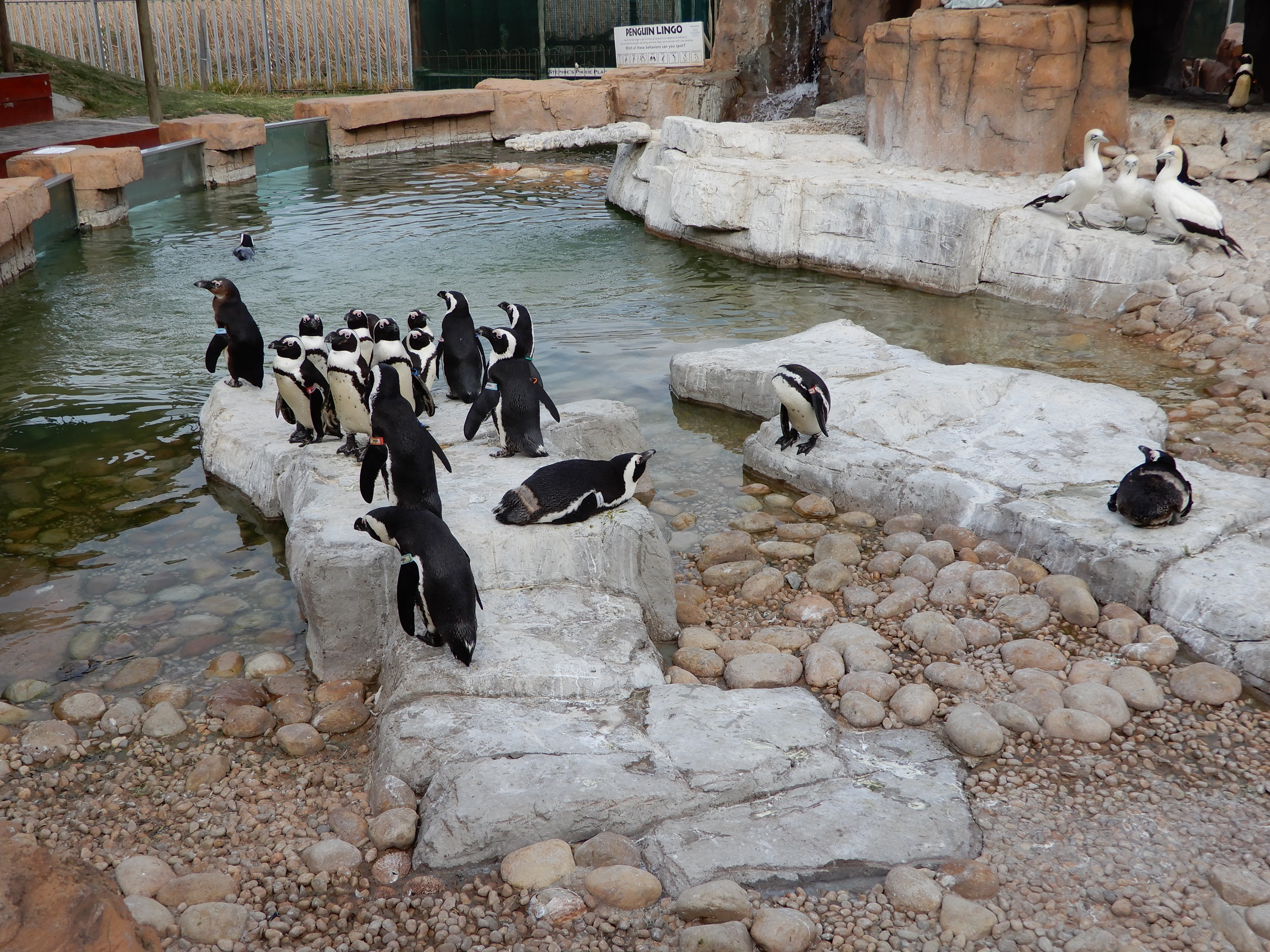 African penguins and Cape gannets by the rescue station SANCCOB in Port Elizabeth.